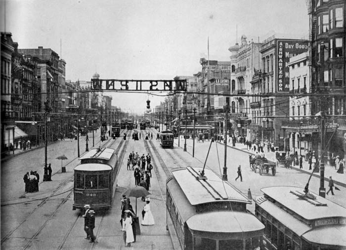 New Orleans in the 1900s. "Canal Street--The Broadway of New Orleans". Shows view looking riverwards from the 800 block, with electric streetcar, pedestrian, and carriage traffic. Signage for streetcars to West End over center of neutral ground.